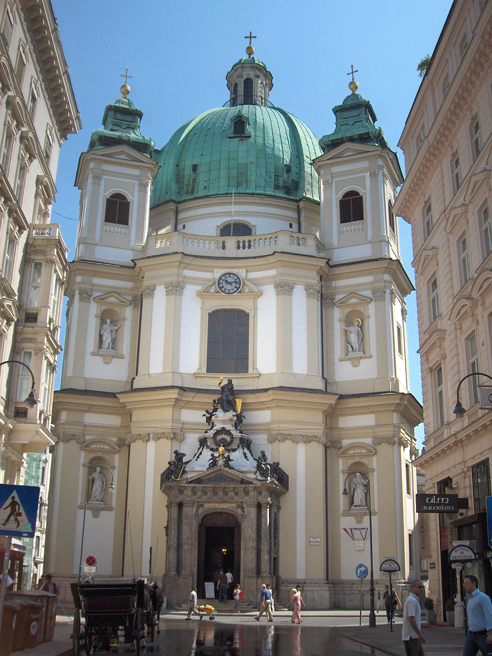 General view on the Peterskirche in Vienna, Austria